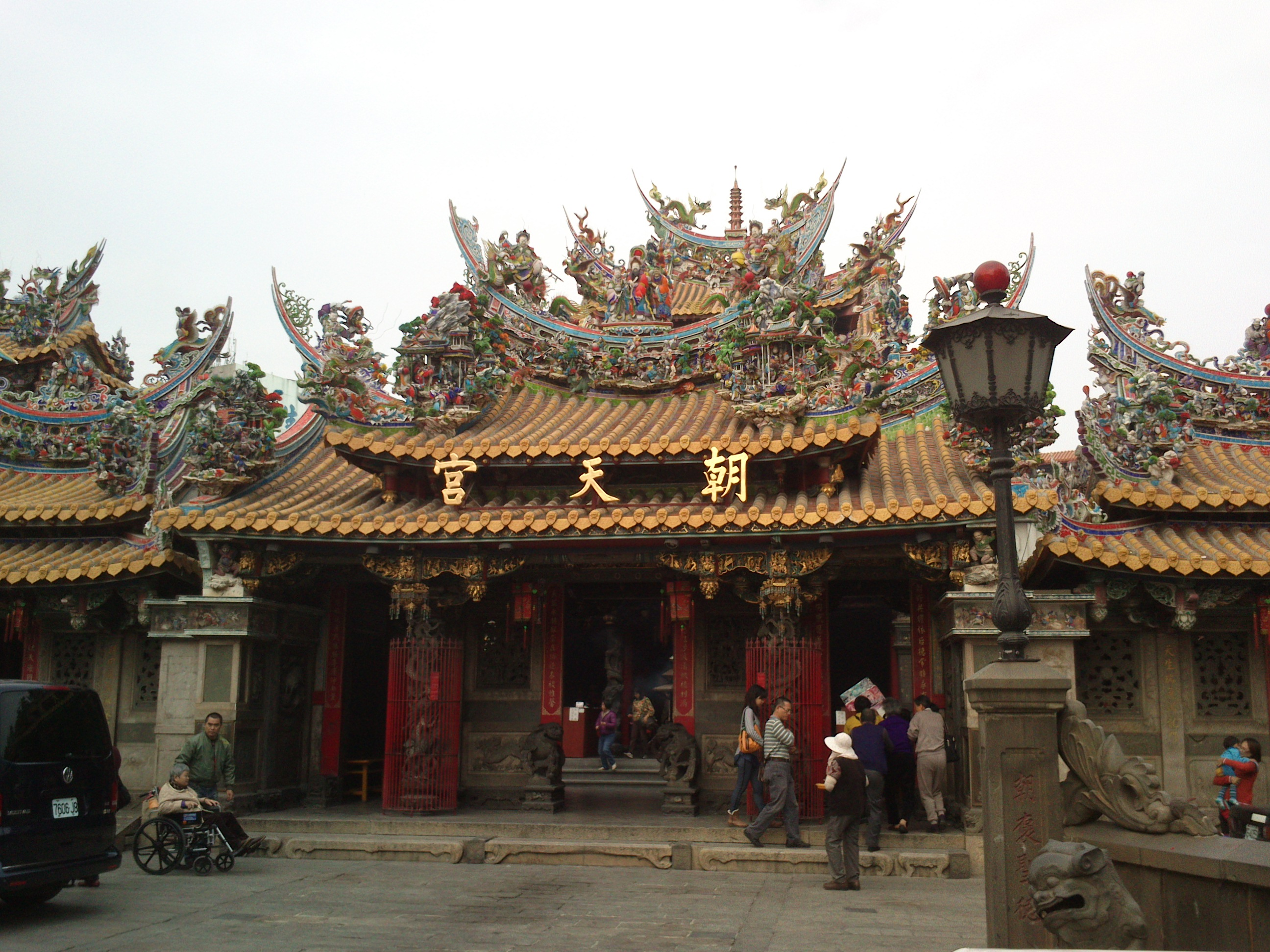 Daytime view on the Chaotian Temple (朝天宮) at Beigang (北港鎮) in Yunlin county, Taiwan. It was constructed in 1694, during the early Ching Dynasty, and is dedicated to Mazu, goddess of the sea. Her statue was introduced to the island's Buddhists by monk Shu-Pi.